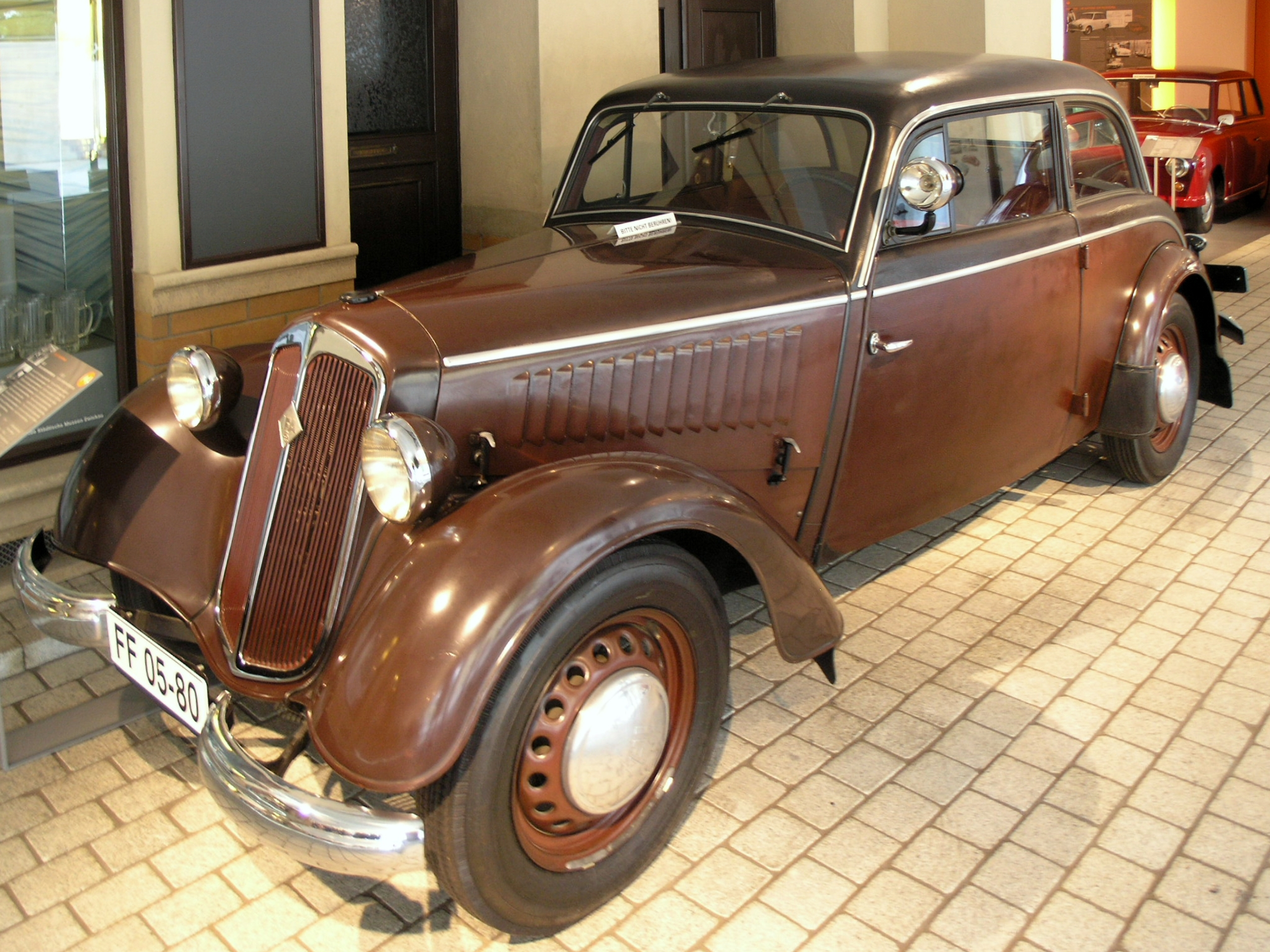 IFA F8